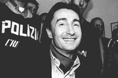 Felice Maniero in Italy in '80